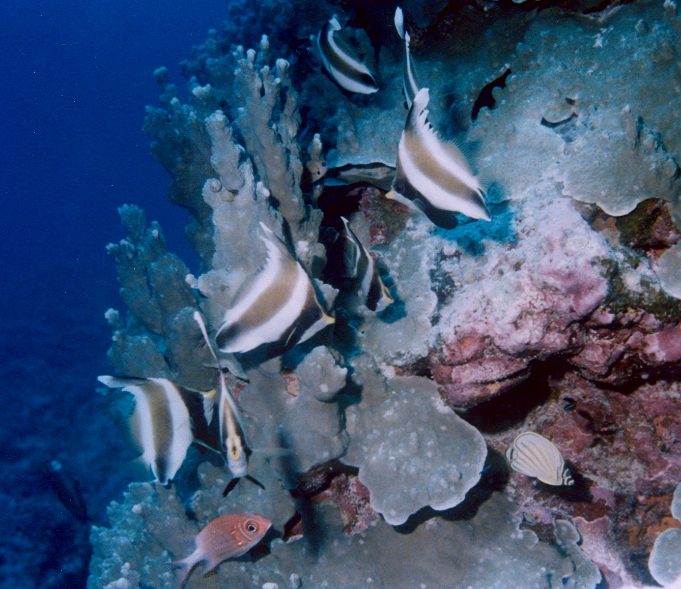 Pennant bannerfish (Heniochus chrysostomus) Image ID: reef0990, NOAA's Coral Kingdom Collection Location: Mariana Islands, Guam